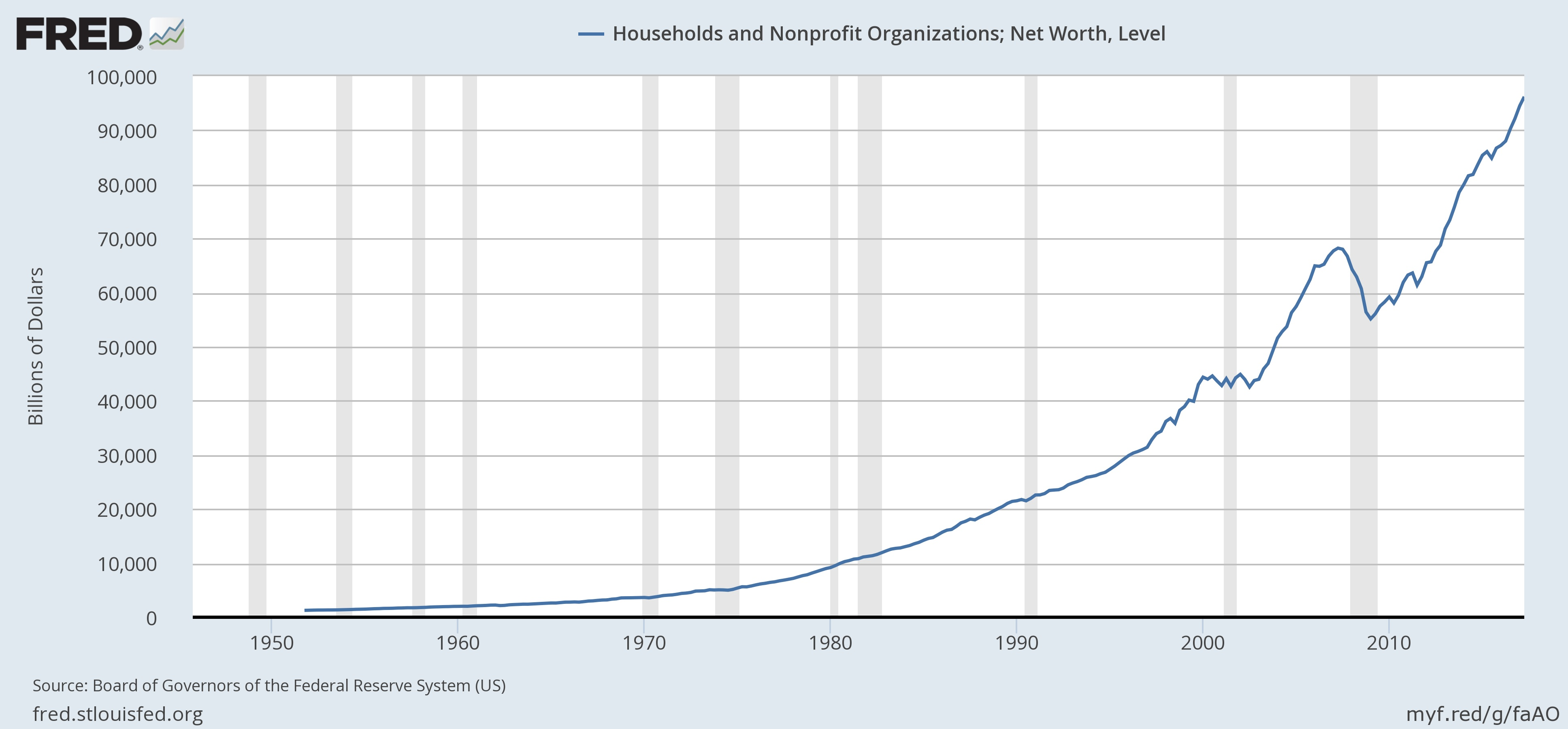 This is a graph describing the total net work of U.S. households from 1949 to 2012.